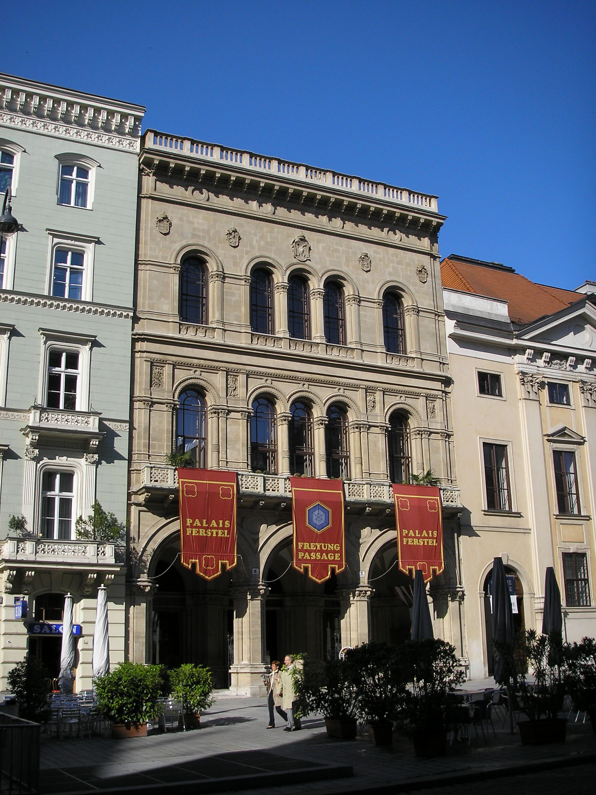 The Palais Ferstl, the former Austro-Hungarian Bank building, close the Freyung, Vienna. Constructed by Baron Heinrich von Ferstel.